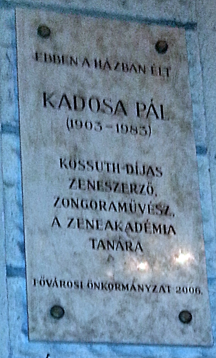 Pál Kadosa commemorative plaque in Budapest District V, Március 15. Square No 8